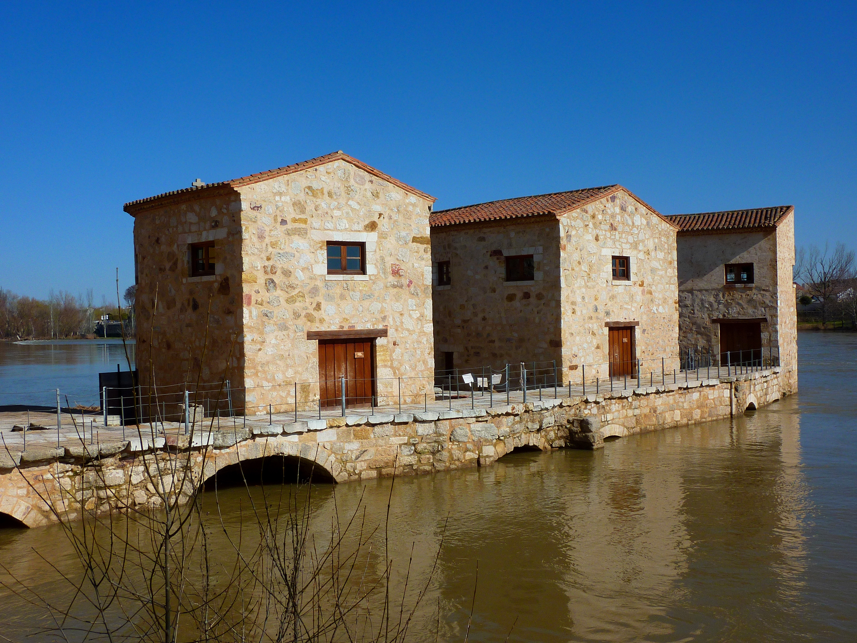 Olivares mills, Zamora, España.